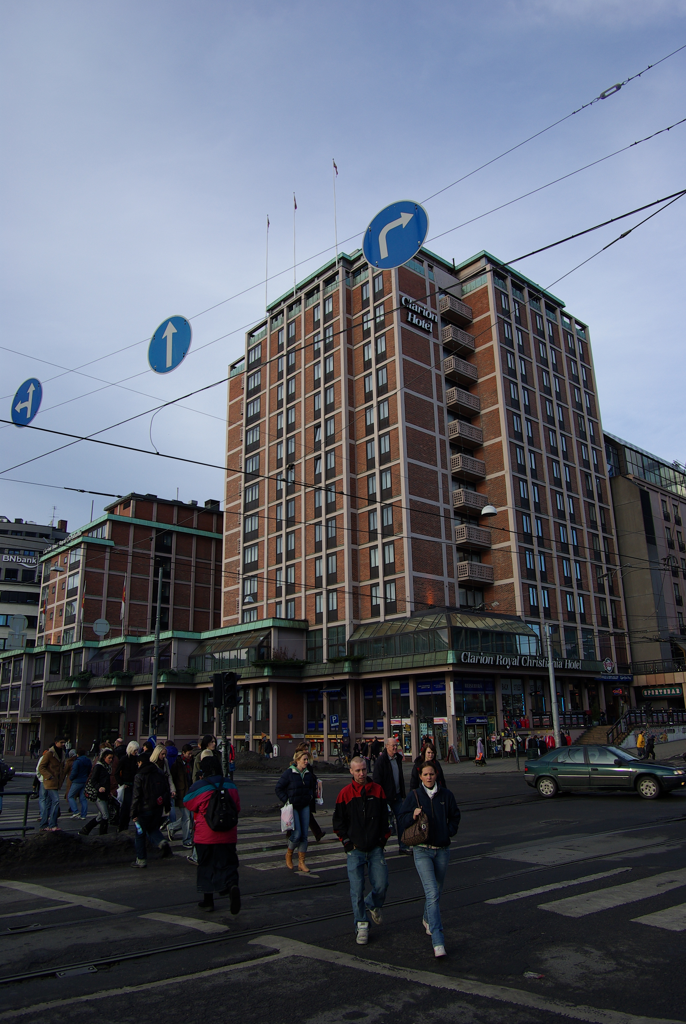 Jernbanetorget, in the background the Royal Christiania Hotel, Oslo, Norway.